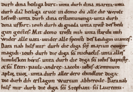 Otlohs Gebet (Otloh's Prayer), old Bavarian text from 11th century, written by Otloh of St. Emmeram.